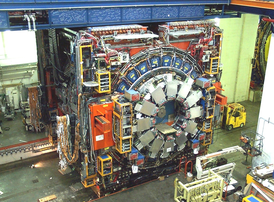 CDF detector rolling in for run II at Fermilab.